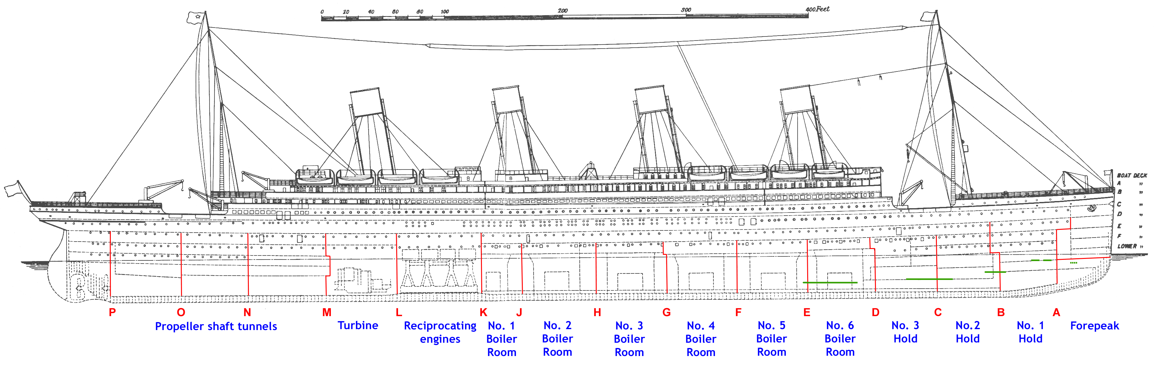 Side plan of the RMS Titanic (annotated English version)